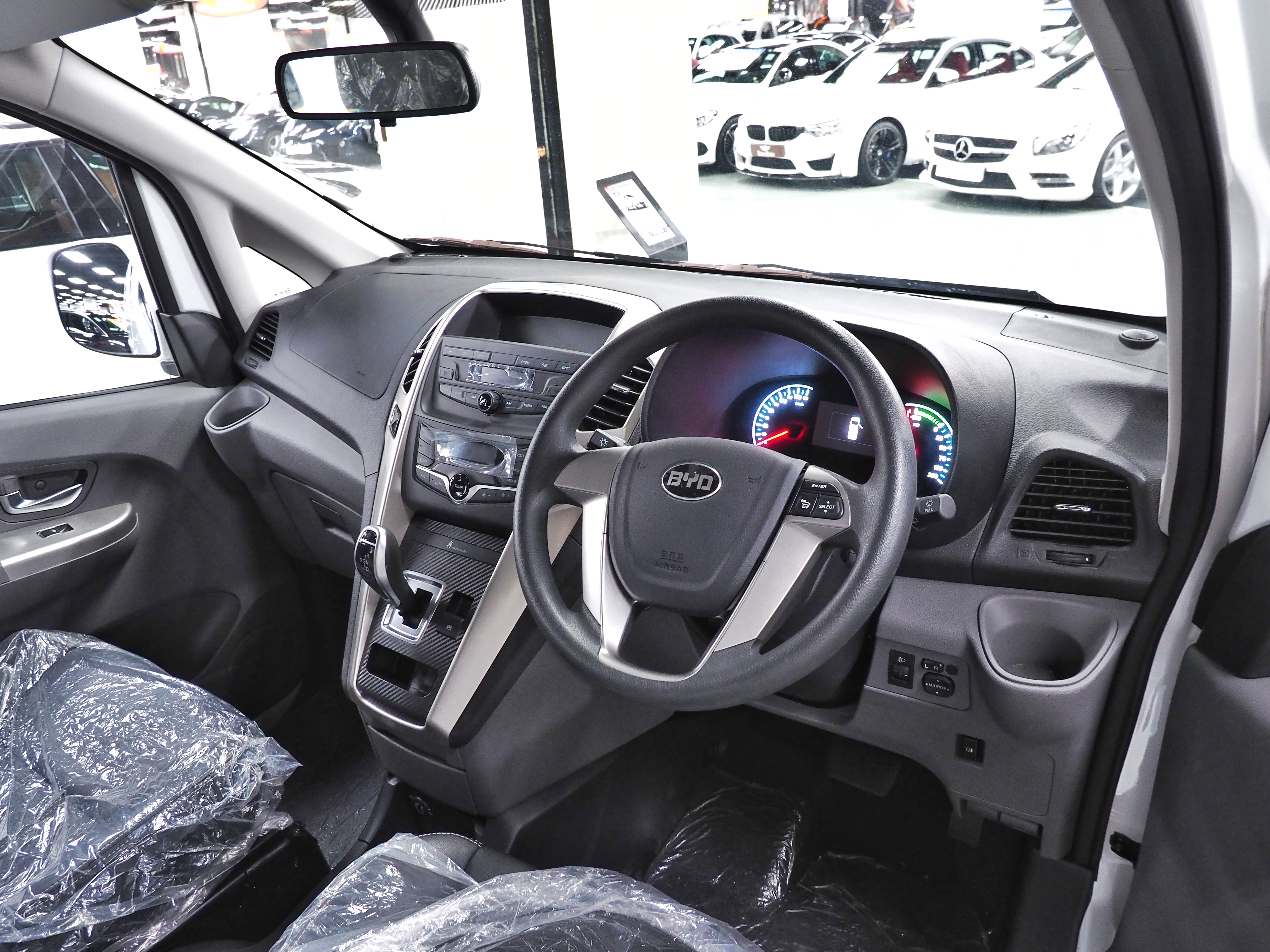 A 2015 BYD T3 taken in Kowloon, Bay, Hong Kong.